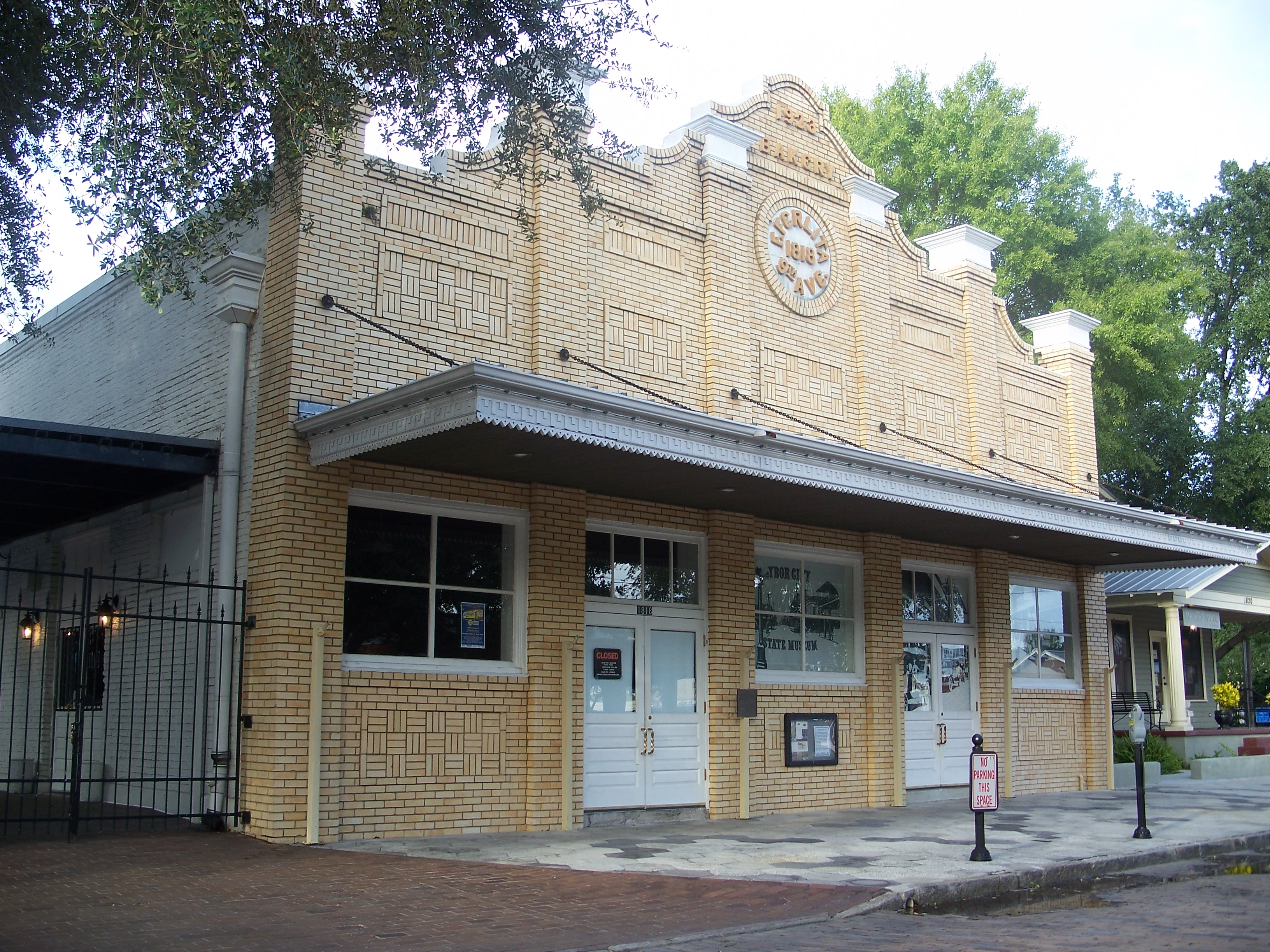 Ybor City Museum State Park, in Tampa, Florida; building formerly a bakery.